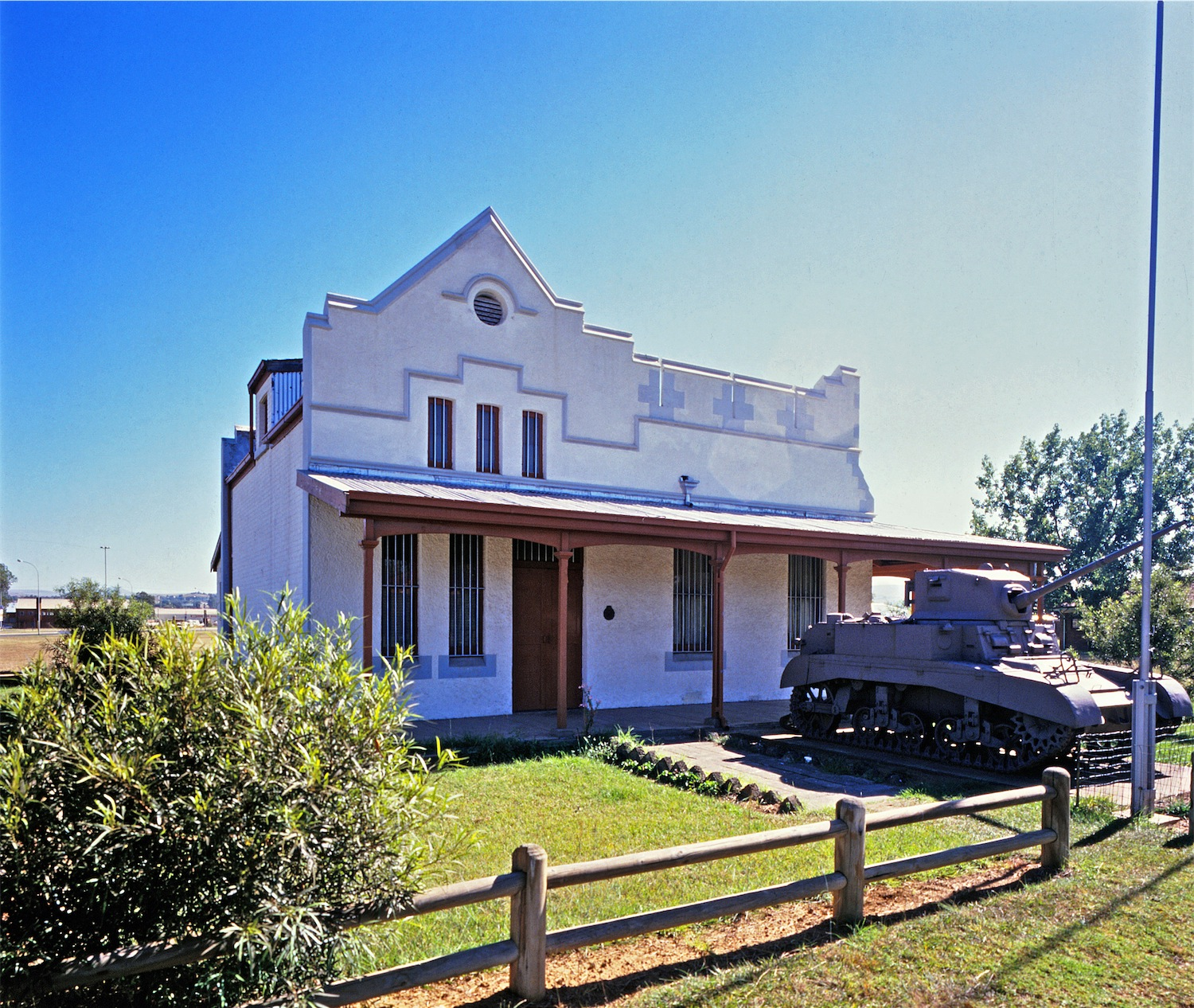 This media shows a South African Protected Site with SAHRA file reference 9/2/429/0017.